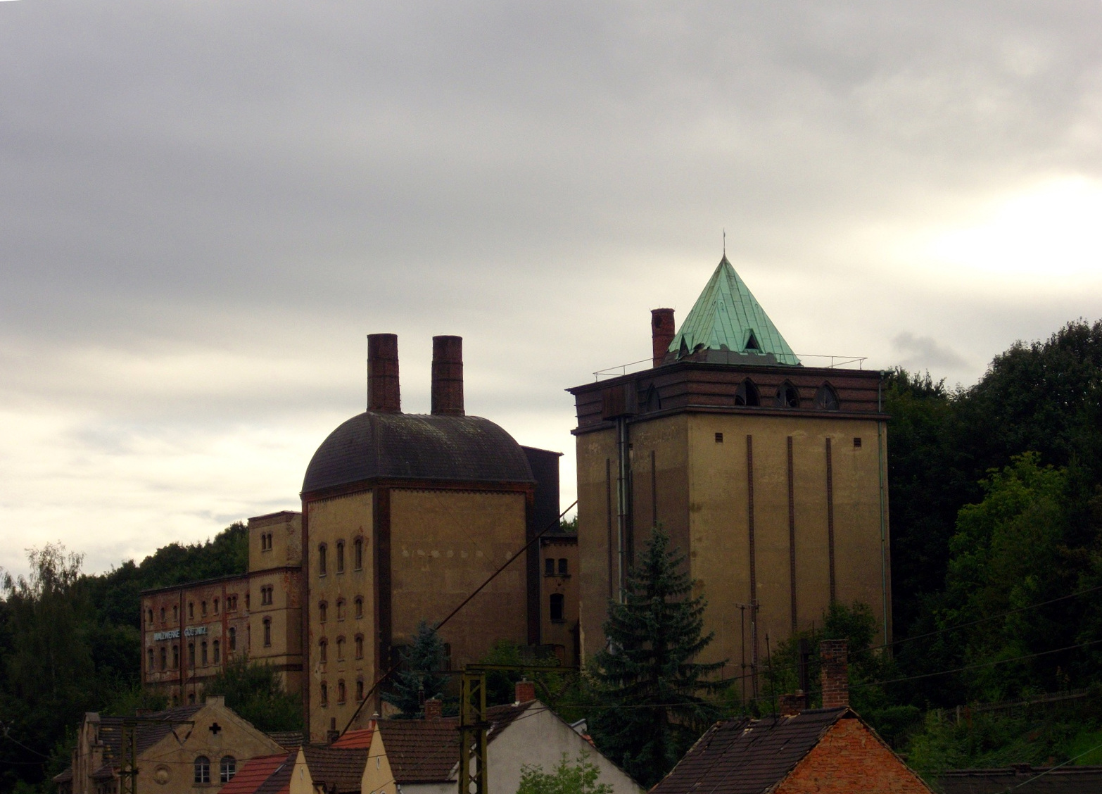 Malt factory in Gößnitz near Altenburg/Thuringia